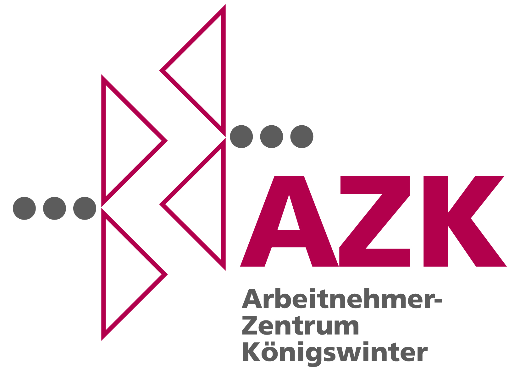 Logo of Arbeitnehmer-Zentrum Königswinter, Königswinter